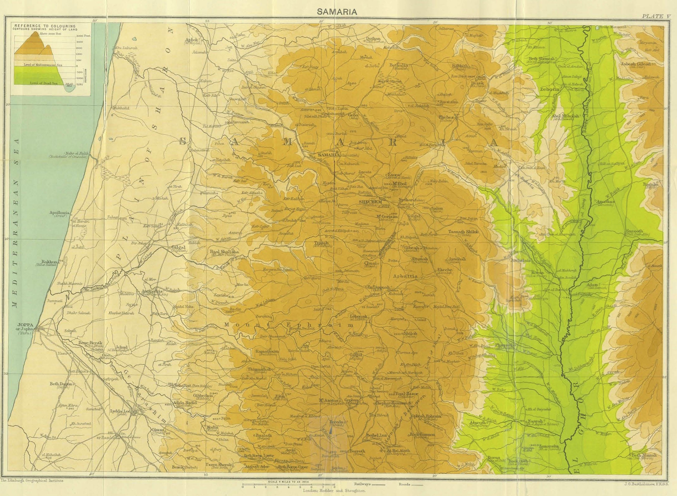 Plate from The Historical Geography of the Holy Land (1894)